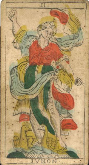 Trump card from the Renault tarot of Besançon.